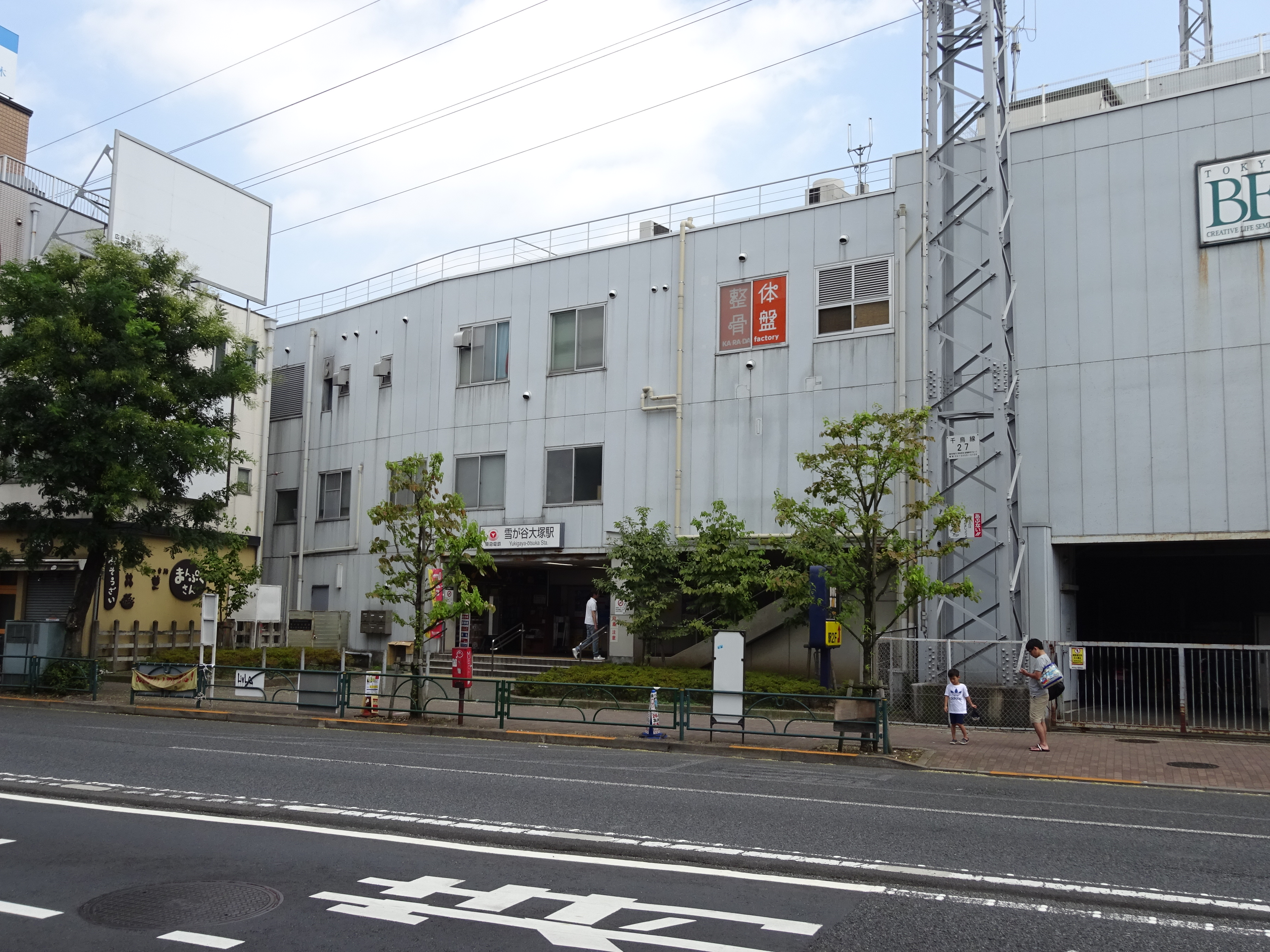 South Entrance of Yukigaya-ōtsuka Station